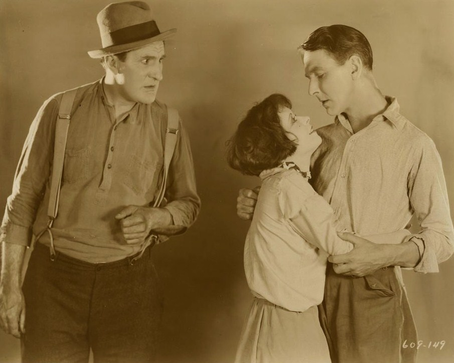 L. to R. : Ernest Torrence, Clara Bow, and Percy Marmont in Mantrap - publicity still (cropped : see source).